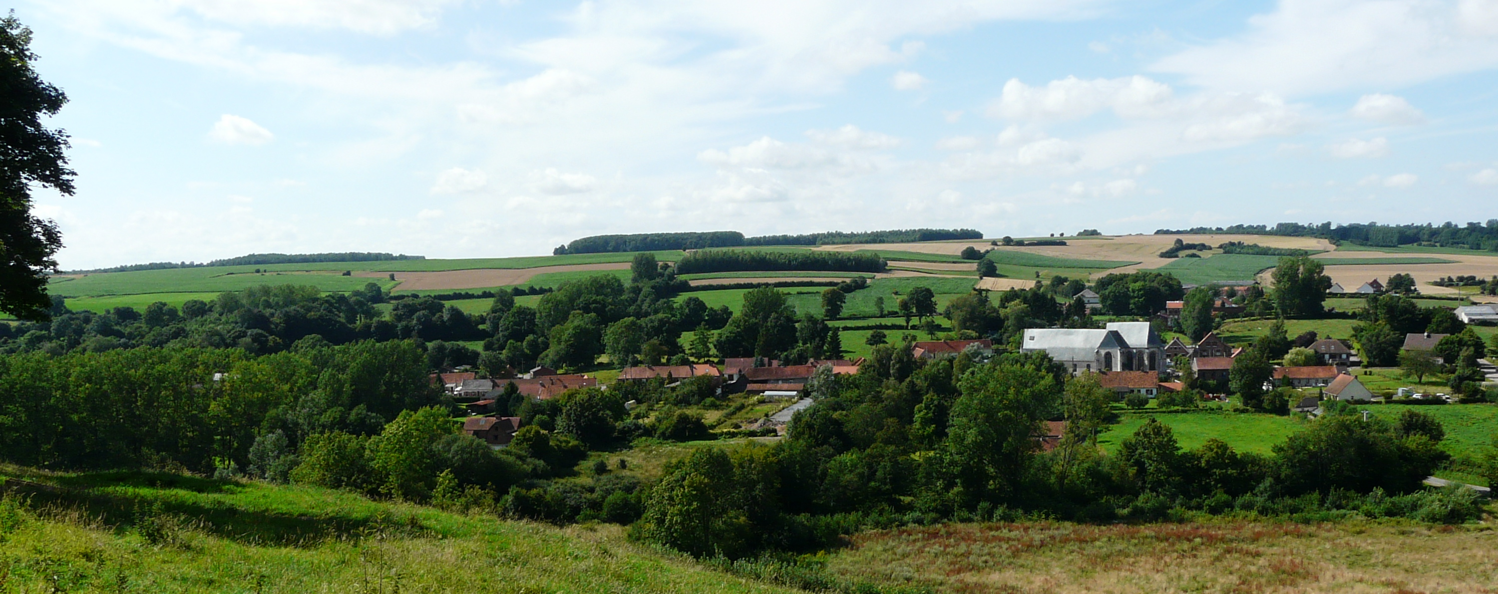 The town of Heuchin as seen from the road from Boyaval, in 2009